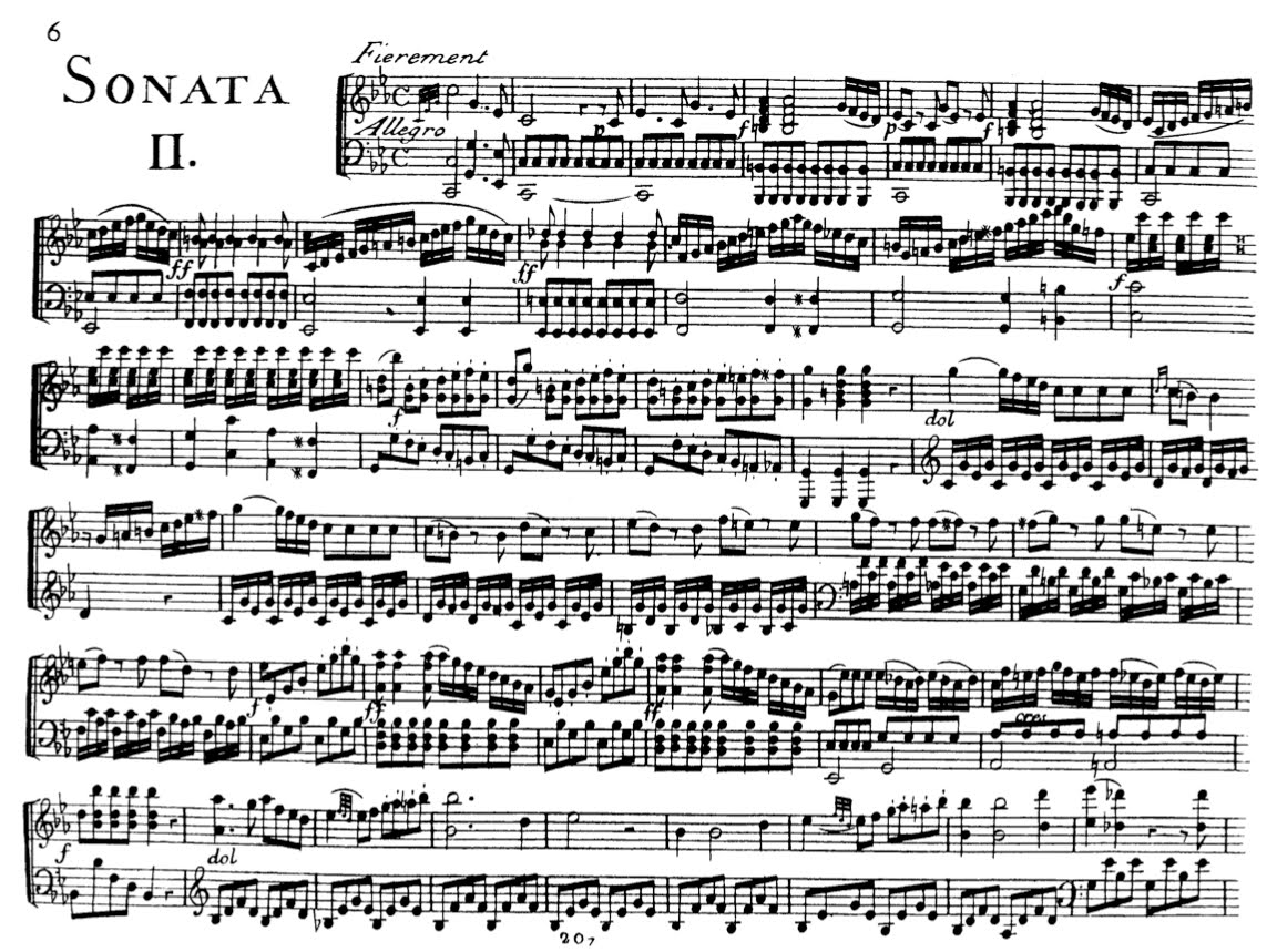 First page score Piano Sonata opus 1/2